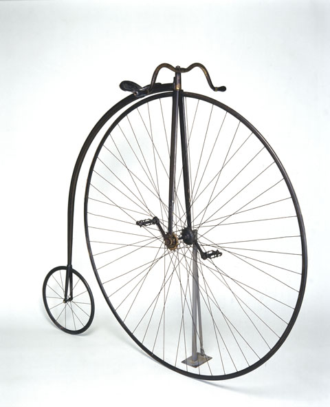 A D Rudge & Co. "ordinary" bicycle, built 1884, now in the collections of the Science Museum (London) as copied from their ObjectWiki.